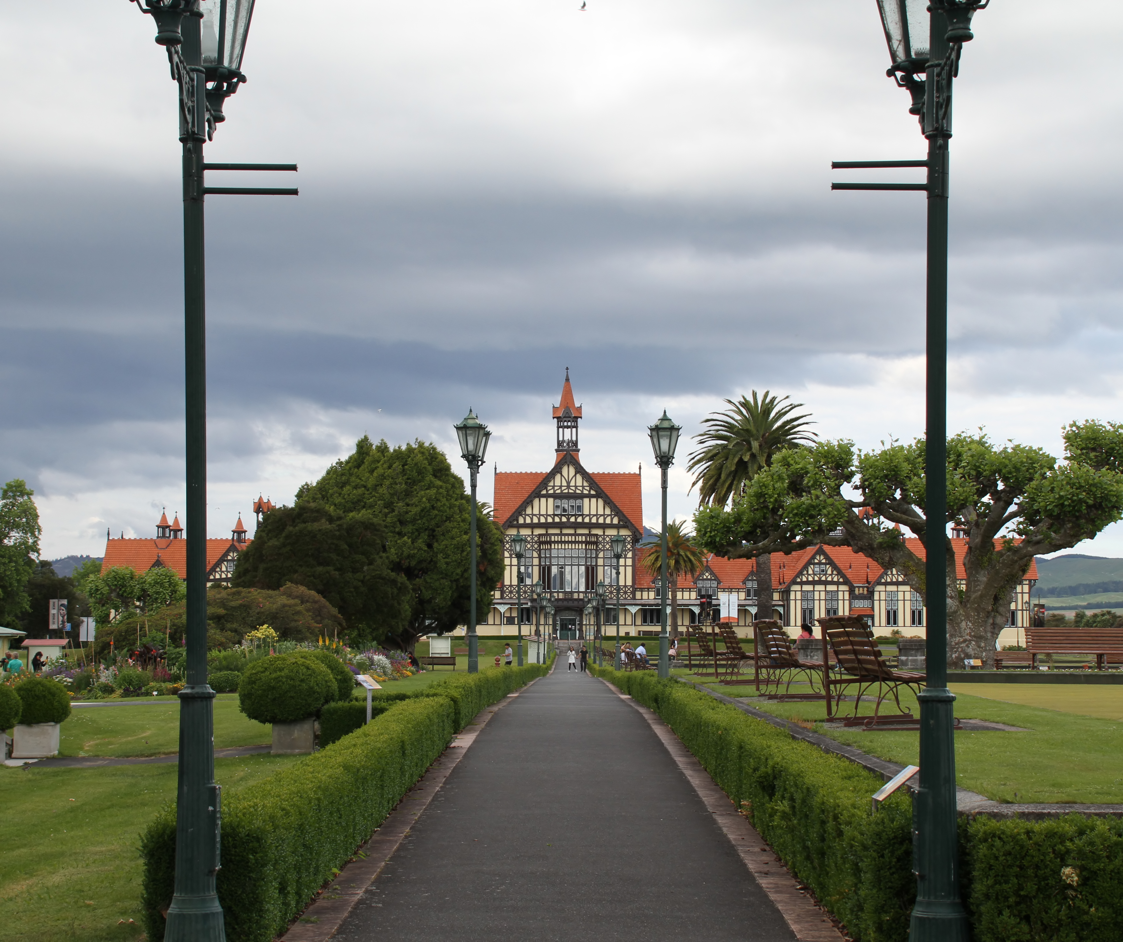 Bath House Rotorua 12